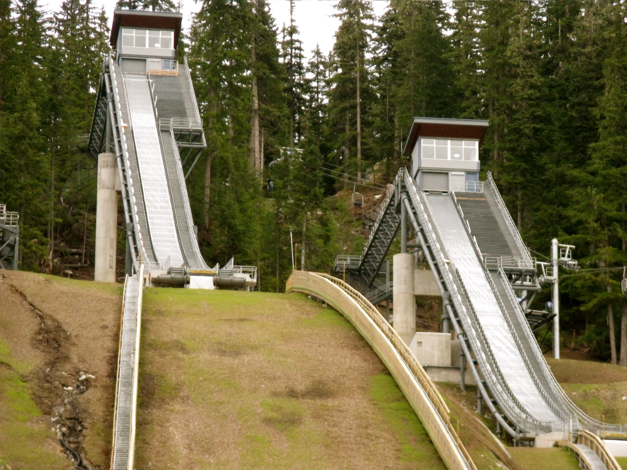 Start slopes of the 2 olympics jumping hill of Whistler